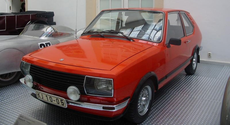 One of four ever build Wartburg 355 prototypes at the Dresden Verkehrmuseum, a four-stroke enginge by Renault was used.